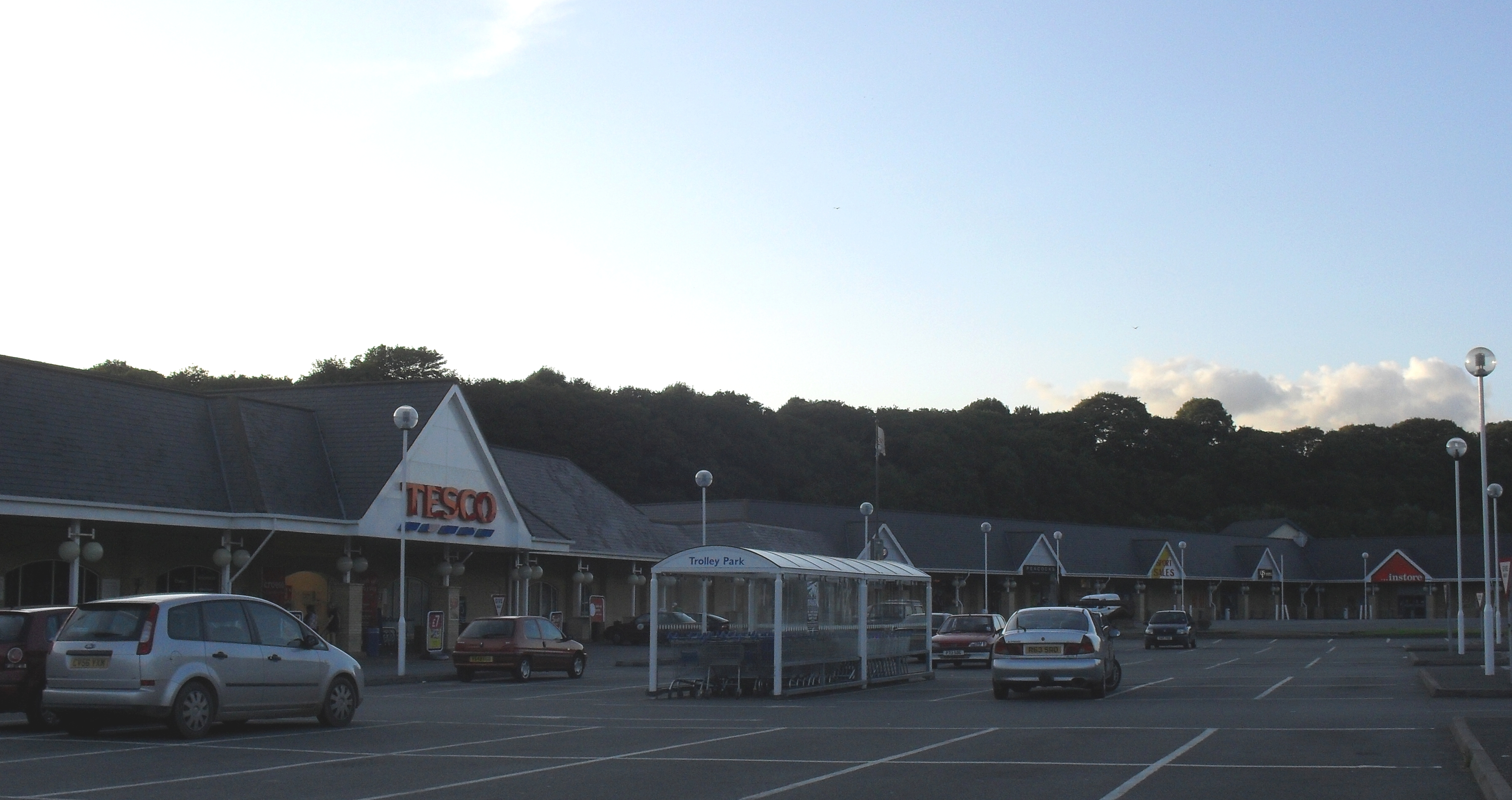 Havens Head Retail Park, Milford Haven, Pembrokeshire